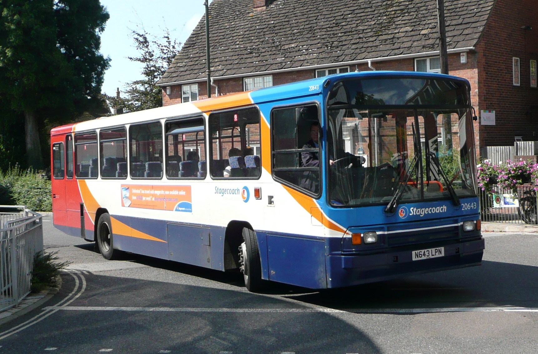 Stagecoach in the South Downs 20643 (N643 LPN), a Volvo B10M/Alexander PS type, in Horsham bus station on route 17.